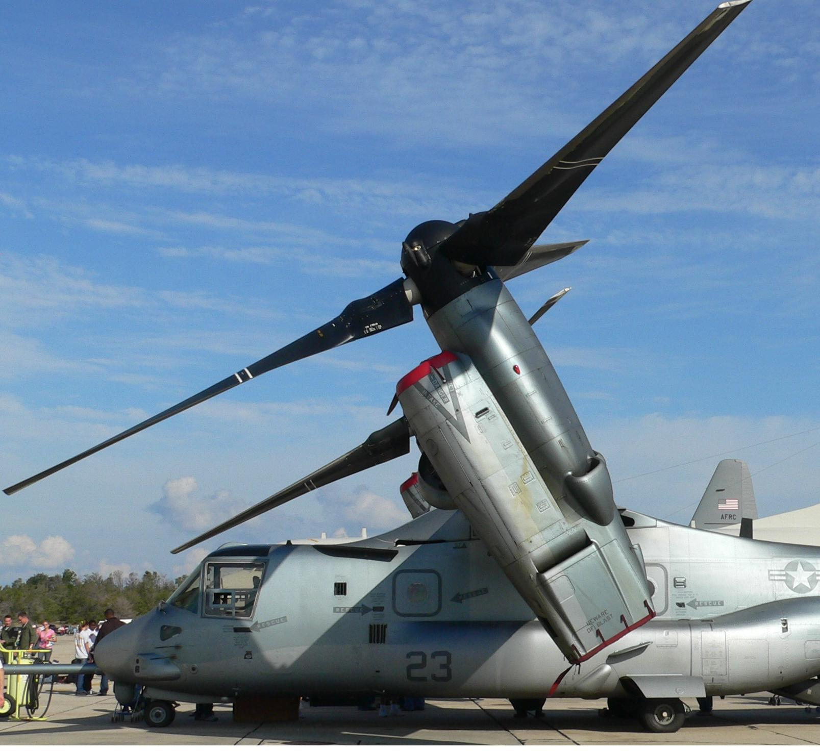 V-22 Osprey of Marine Squadron VMX-22 on static display at NAS Pensacola.